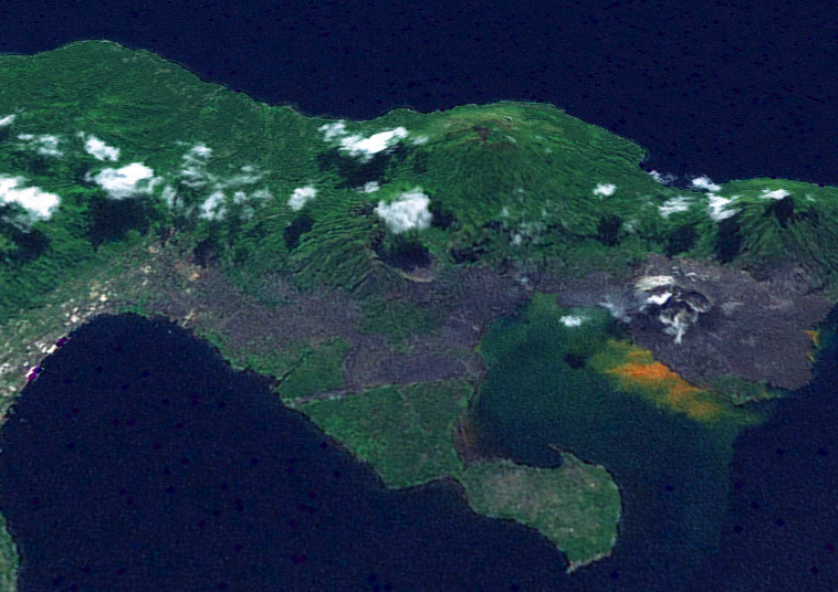 NASA World Wind image of Tavurvur vent of the Rabaul Caldera